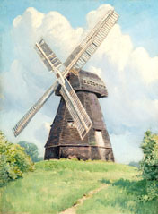 Painting of Shiremark windmill